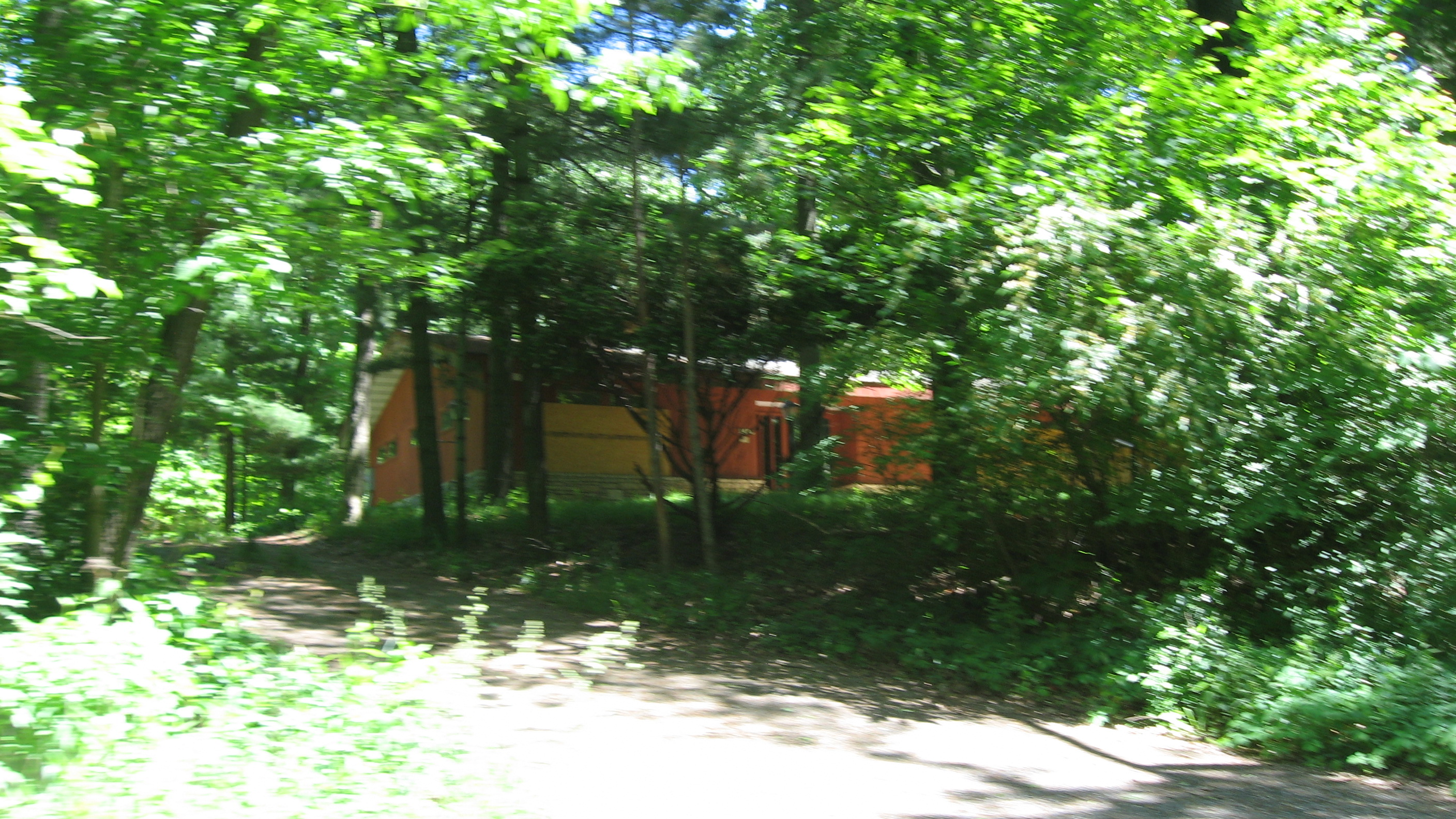 Roadside view of the Read Dunes House, located at 1453 Tremont Road north of Chesterton in Westchester Township, Porter County, Indiana, United States. The entire property, including the 1952-built house, is listed on the National Register of Historic Places.